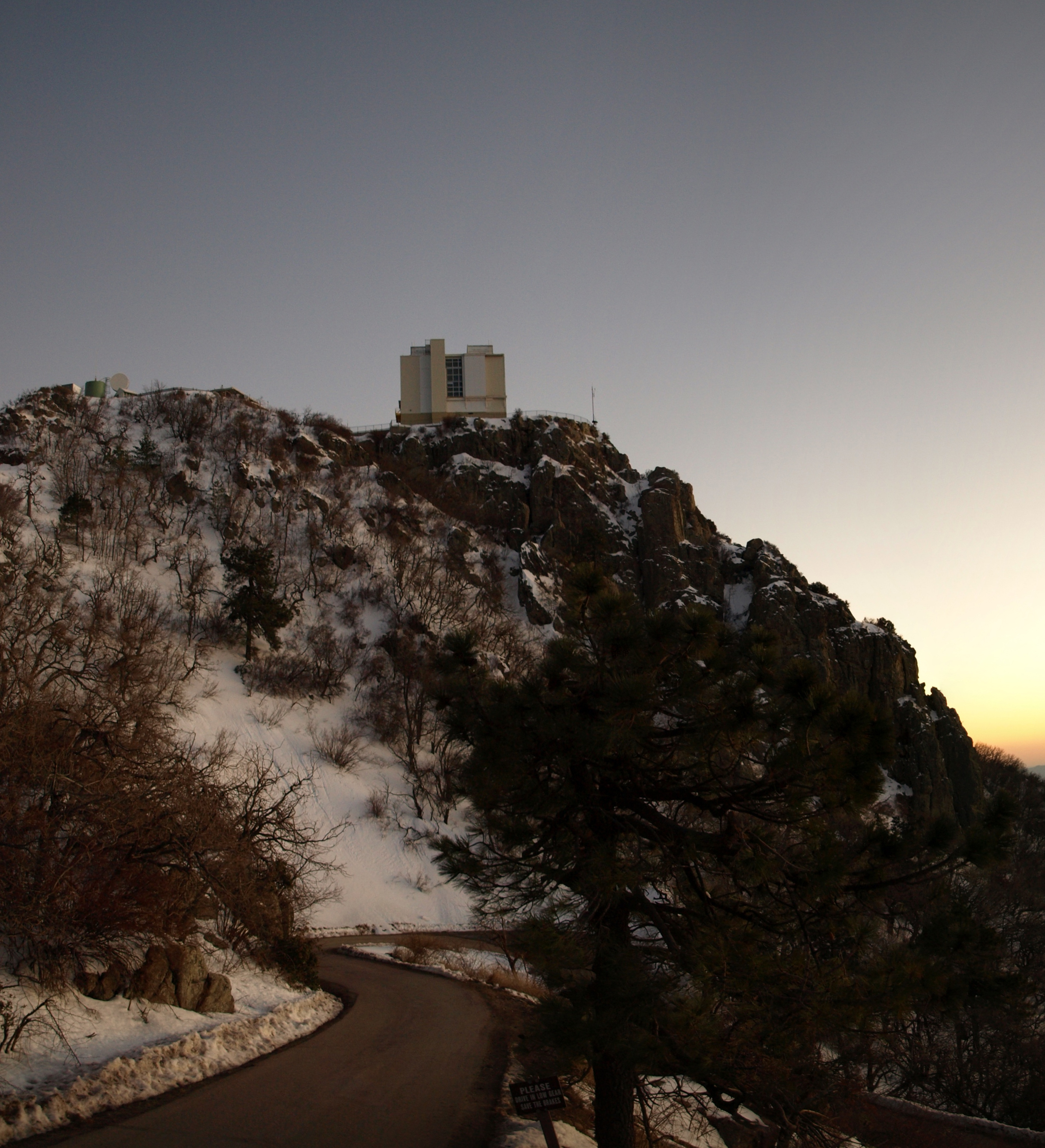 View of the MMT Obsevatory